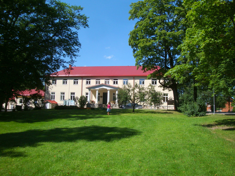 Sehlen manor houseLatviešu: Sēļu muižas pils